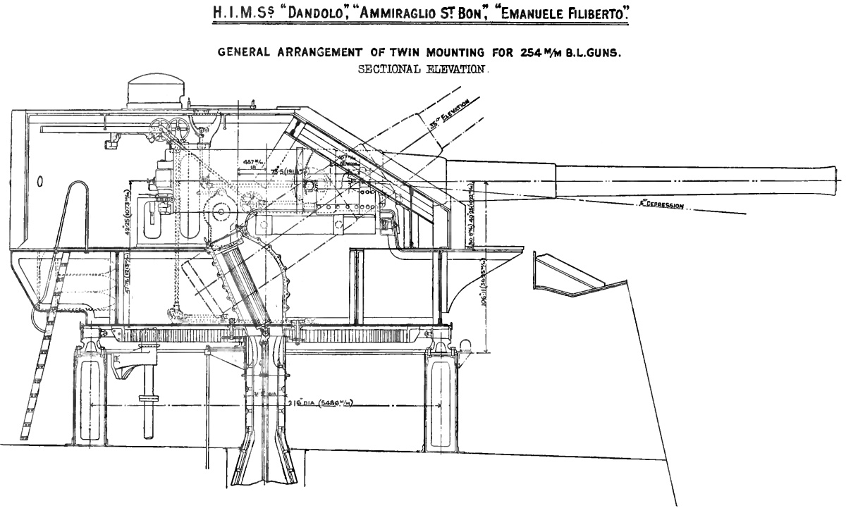 Right elevation diagram of Elswick Ordnance 10-inch 40 calibre gun turret of Italian Ammiraglio di Saint Bon class battleship commissioned 1901.